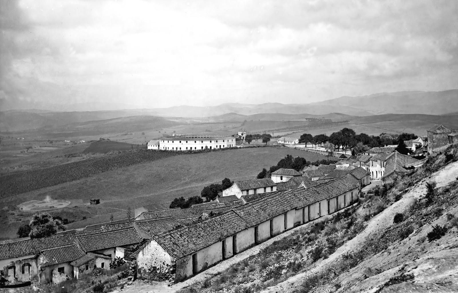 Plaza de Toros San Roque - Photograph by George Washington Wilson taken in the 1870-1890s in Campo de Gibraltar in Southern Spain just north of Gibraltar. Pictures found by Neville Chipolina